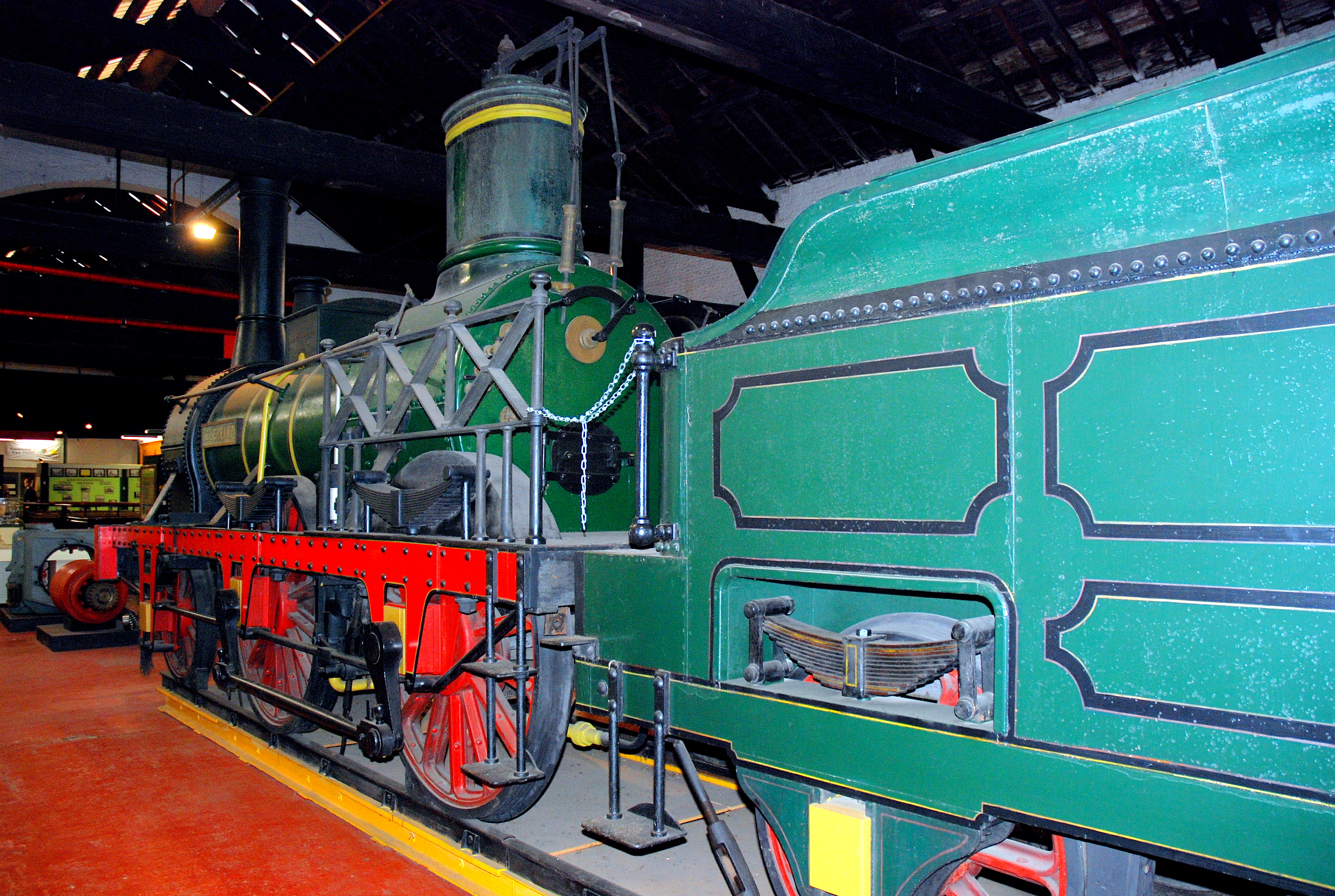 This is L'Elephant, a locomotive imported to Belgium from England.